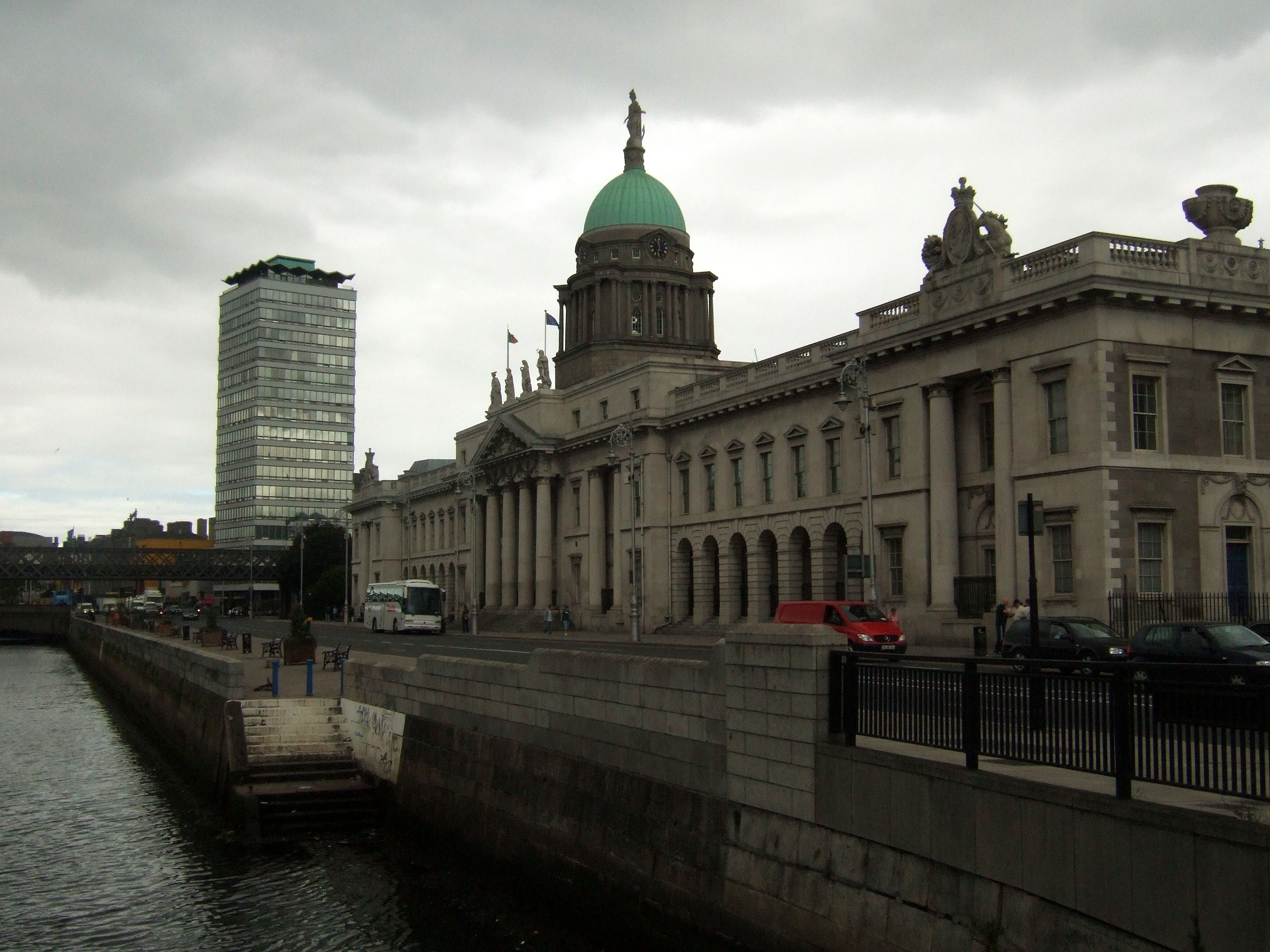 The Custom House in Dublin during the day time, taken from the east. By me.